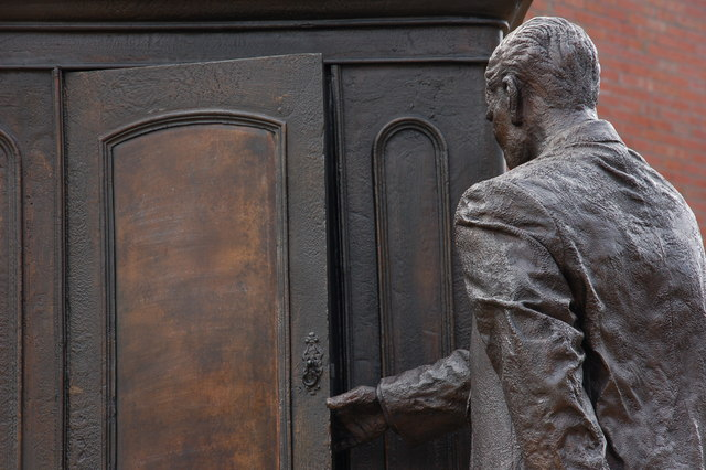 The Lion, the Witch . . . . . . . and the Wardrobe. C S Lewis was born at the Holywood Villas (now the site of the Dundela Flats) and later lived at Little Lea on the Circular Road. He attended (briefly) Campbell College on the Belmont Road. He was baptised at St Mark’s, Dundela on the Holywood Road 448444. This statue, outside the library, at the Holywood Arches, on the Holywood Road was unveiled in 1998. It depicts Lewis, as the Narnia narrator Digory Kirke, stepping into a wardrobe.